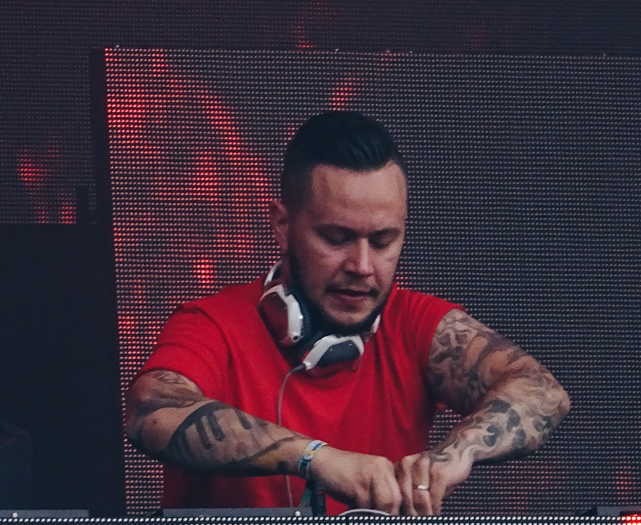 Mike Perry playing live at Lollapalooza, Berlin 2017.